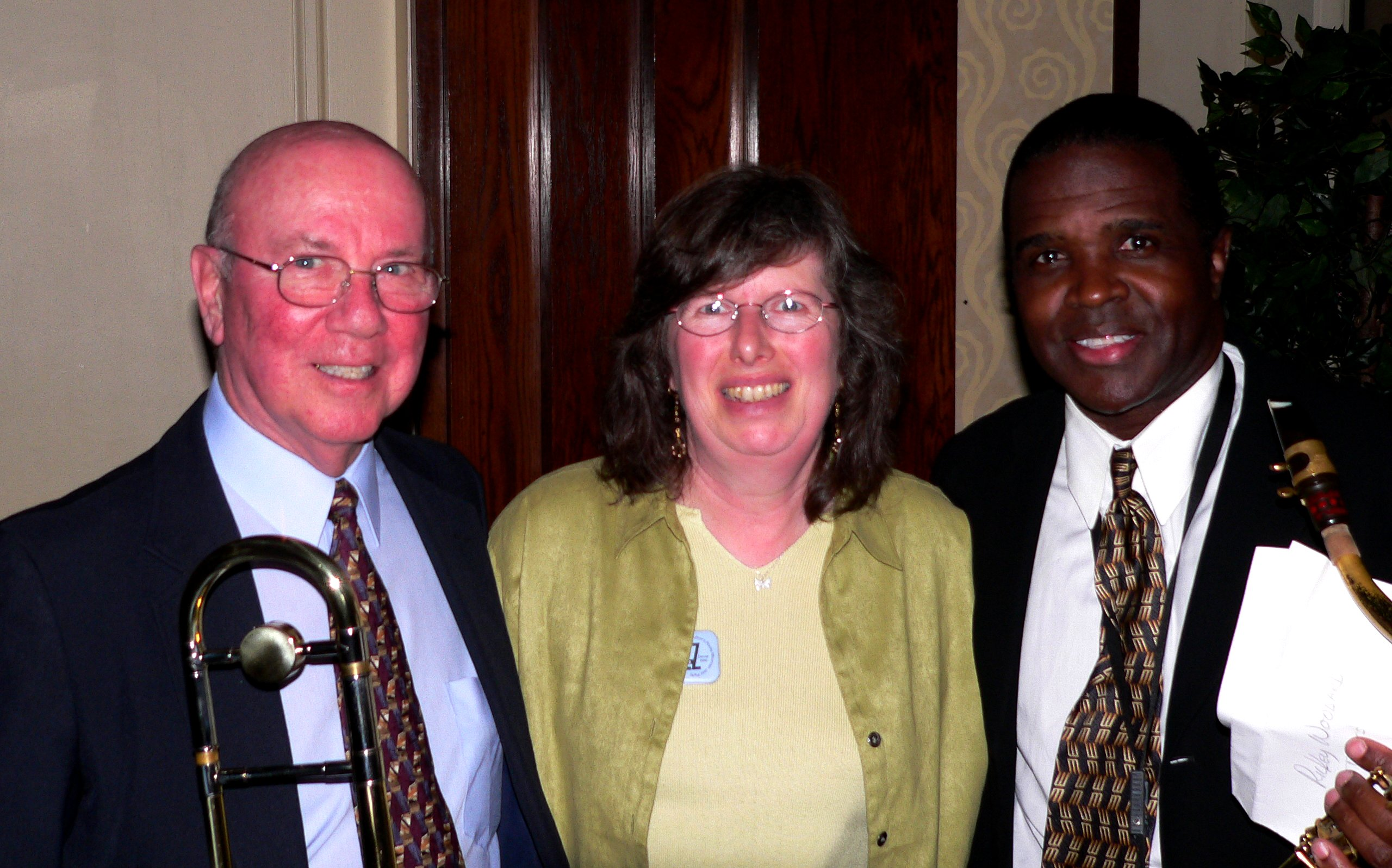 George Masso & Rickey Woodard